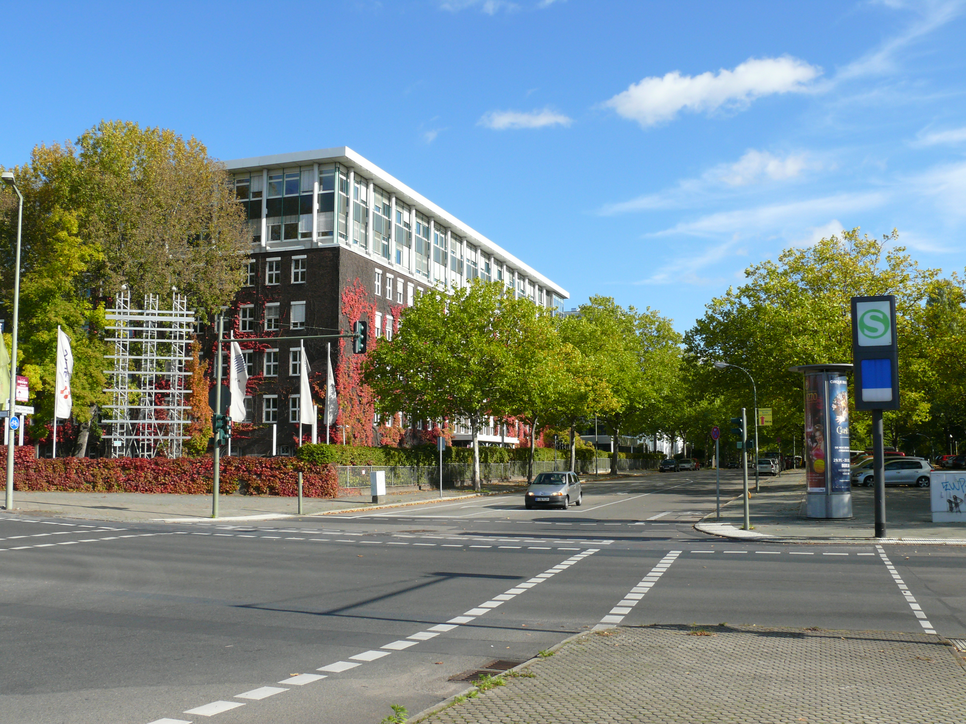 Berlin-Charlottenburg-Nord Max-Dohrn-Straße